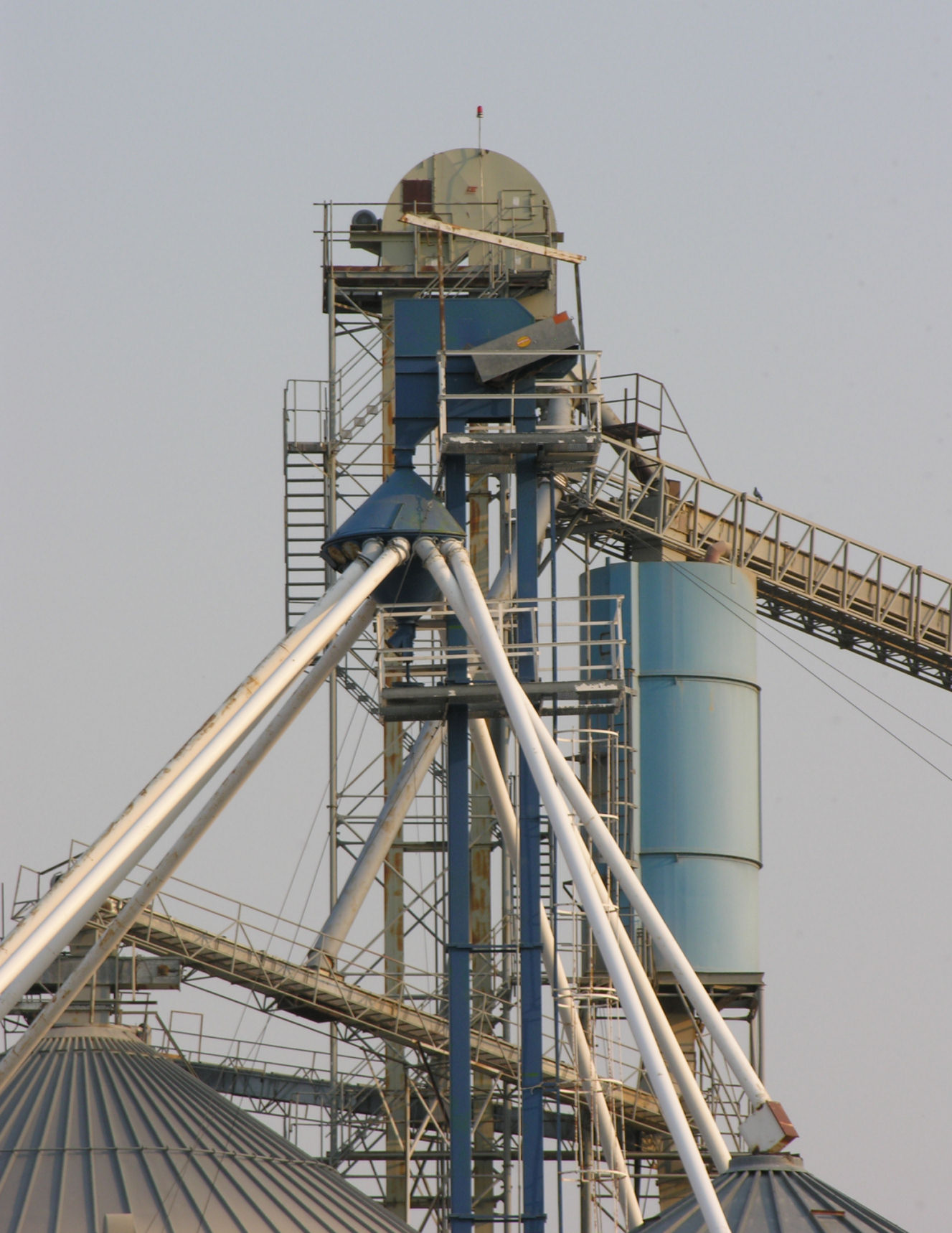 General Mills facility detail, Idaho Falls, Idaho / 2006